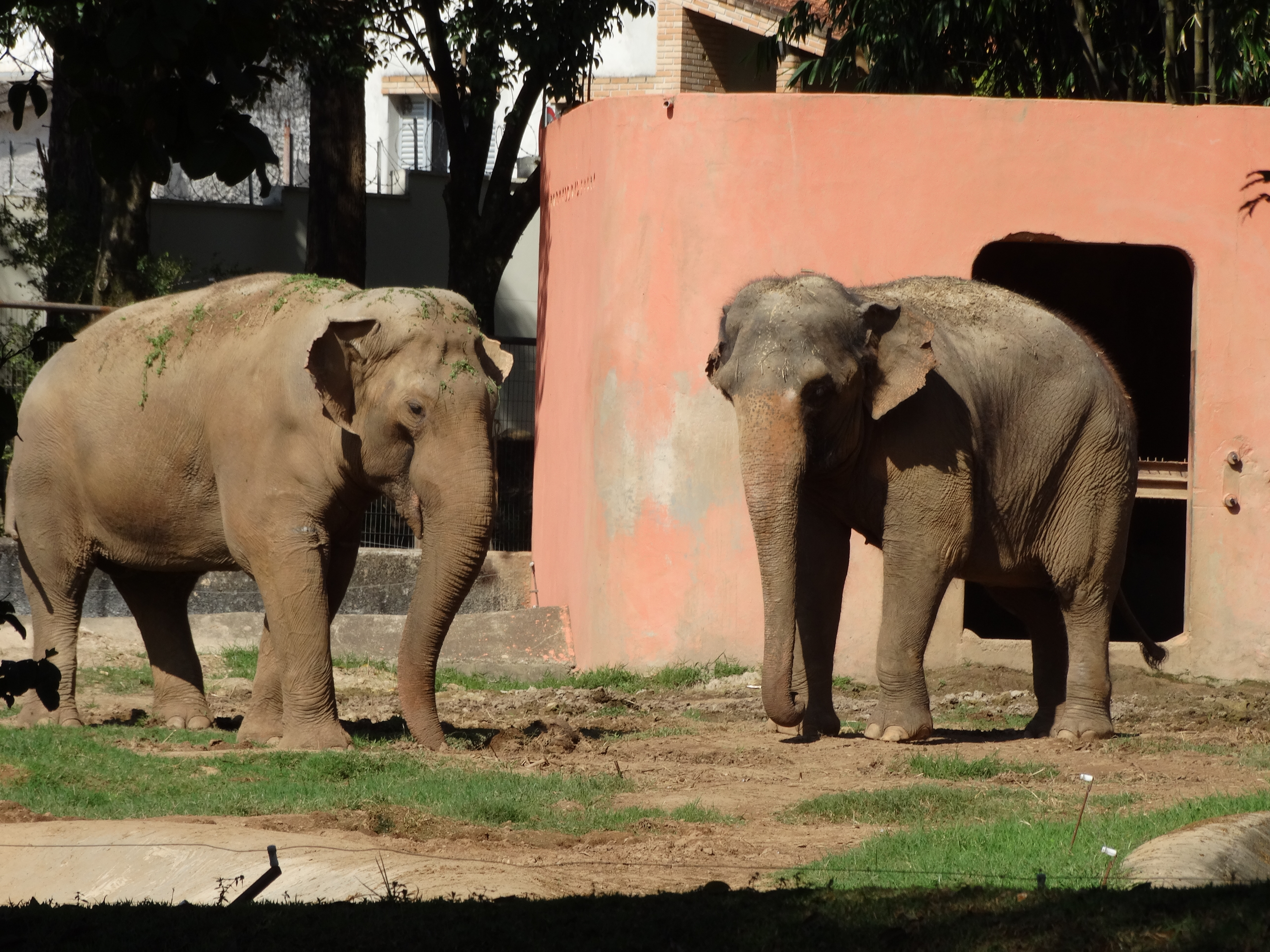 Asian elephant at Sorocaba Zoo.